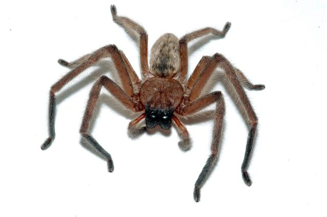 Female Delena cancerides, Huntsman Spider or Avondale Spider, native to Australia, naturalised in New Zealand, associated there with the Auckland suburb of Avondale.